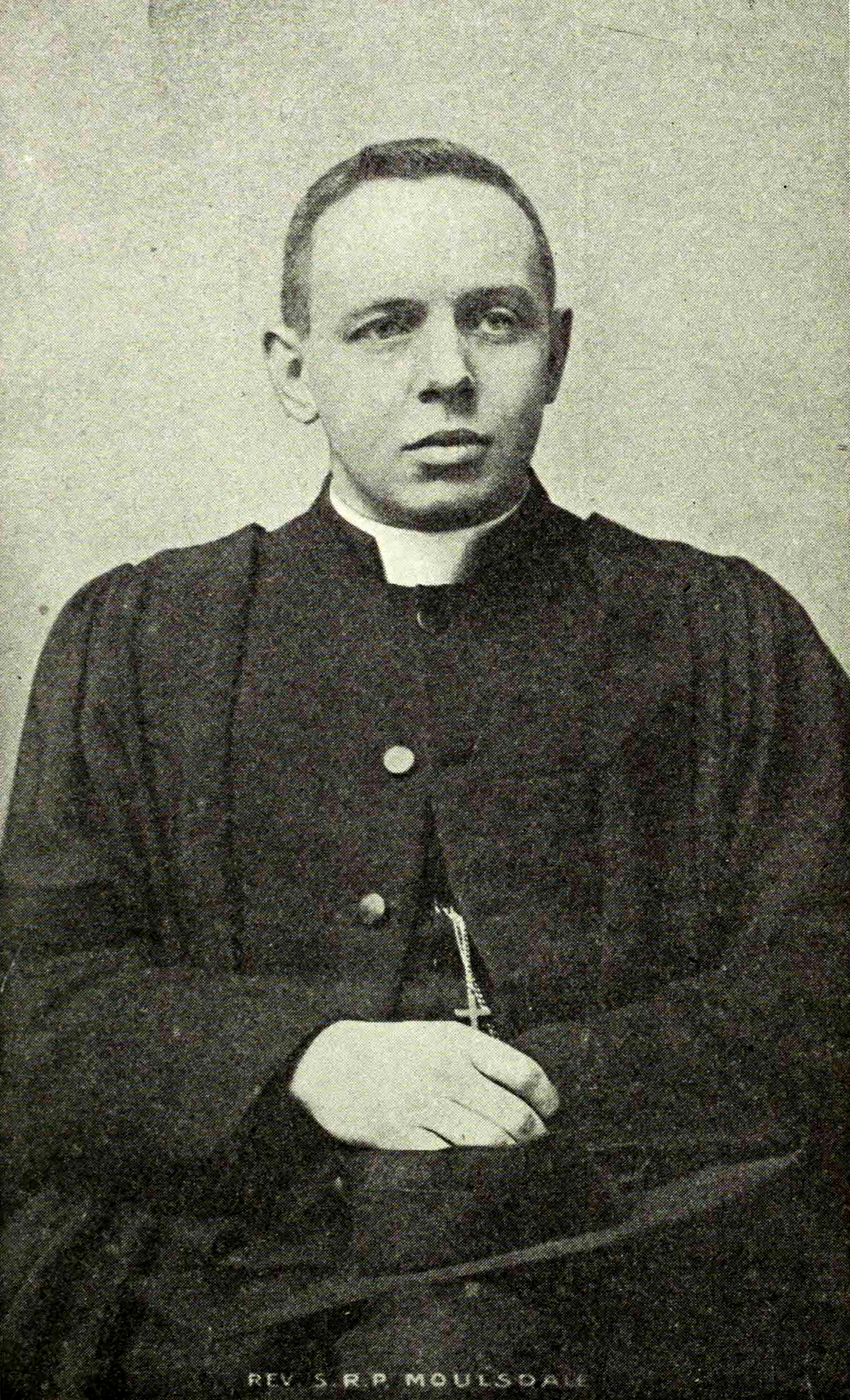 Stephen Moulsdale, first principal of St Chad's College, Durham, from the Epiphany 1909 edition of college magazine The Stag